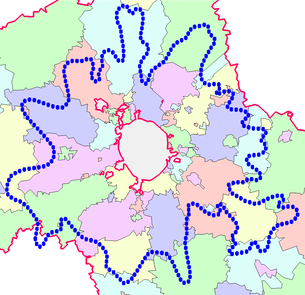 Moscow urban agglomeration, Russia, Lappo 1987 version